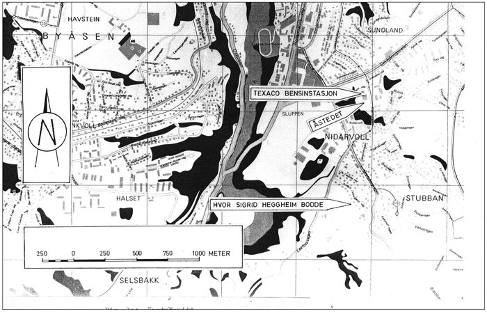 Scene of the crime against Sigrid Heggheim.